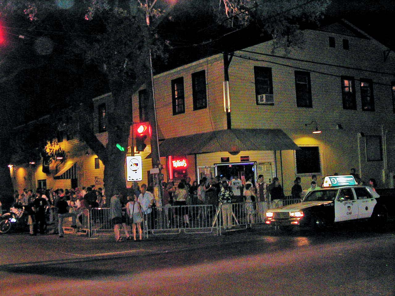 Tipitina's at the corner of Tchoupitoulas Street and Napoleon Avenue